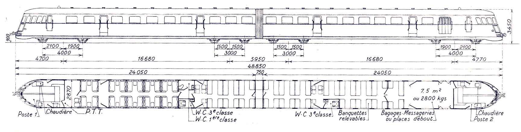 Double Railcar De Dietrich used on the line Paris - Strasbourg then in North Africa (CFA Class ZZ N 100 to 115).